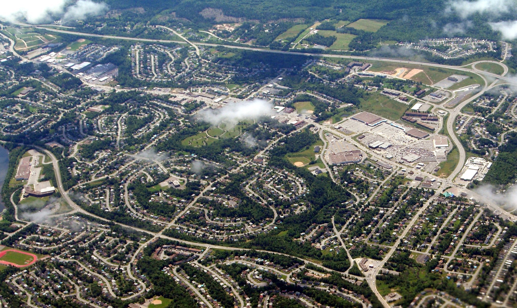 Lower Sackville. Self-made in July, 2006.